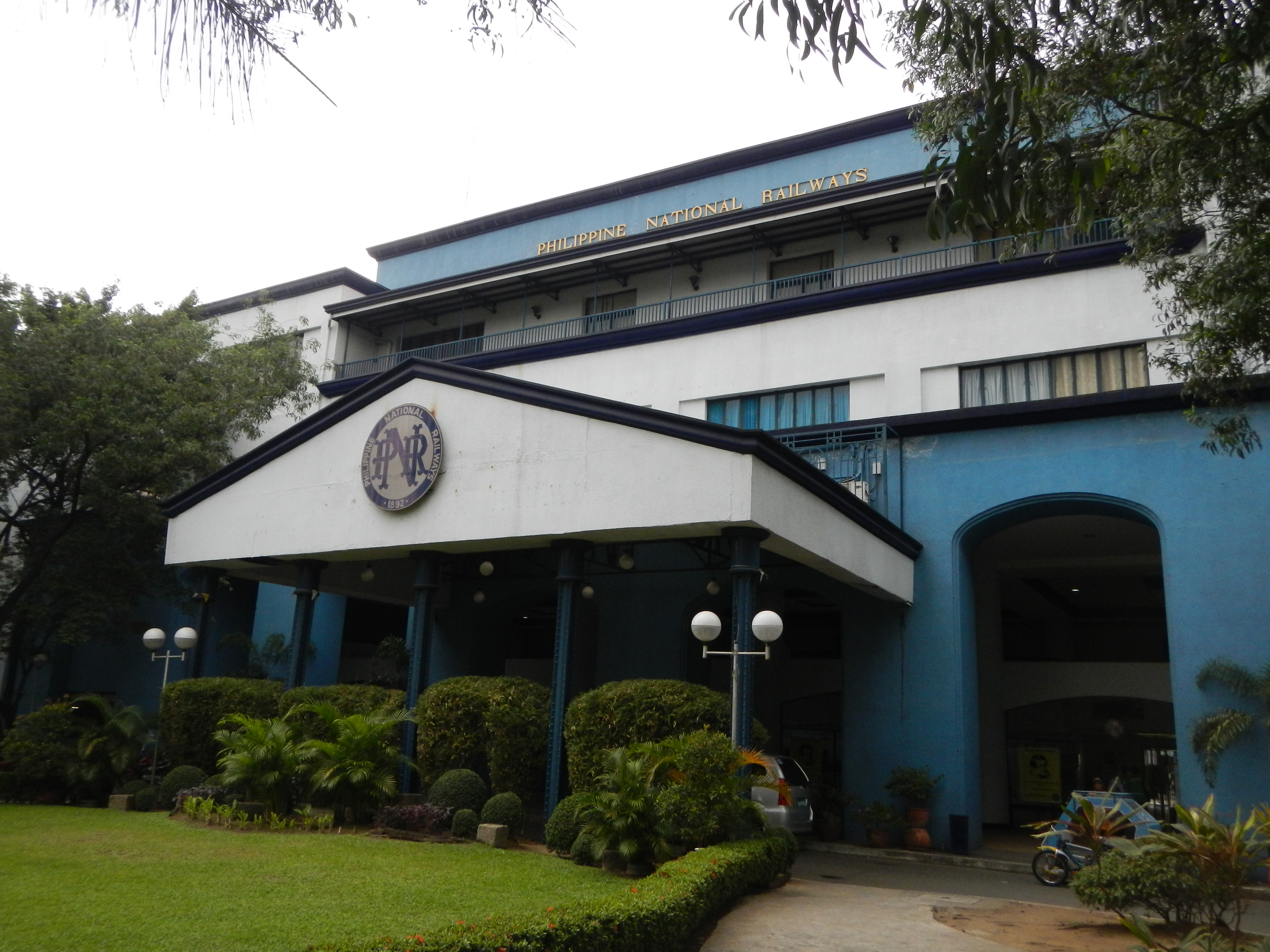 Tutuban railway station[1]is the main train station of the Philippine National Railways (PNR) and the main train station of the city of Manila in the Philippines. The name refers to two stations: the original Tutuban station, which today forms part of the Tutuban Centermall, and the PNR Executive Building, which houses PNR offices and serves as the current terminus of all PNR services. Philippine National Railways[2]or PNR, is a state-owned railway company in the Philippines, operating a single line of track on Luzon. As of 2010, it operates one commuter rail service in Metro Manila and a second in the Bicol Region. PNR restored its intercity service to the Bicol region in 2011. The Bicol Express and Isarog Express run on a daily basis between Manila and Ligao.